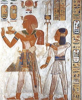 Ramesses III followed by prince Khaemwaset in his tomb (QV44).